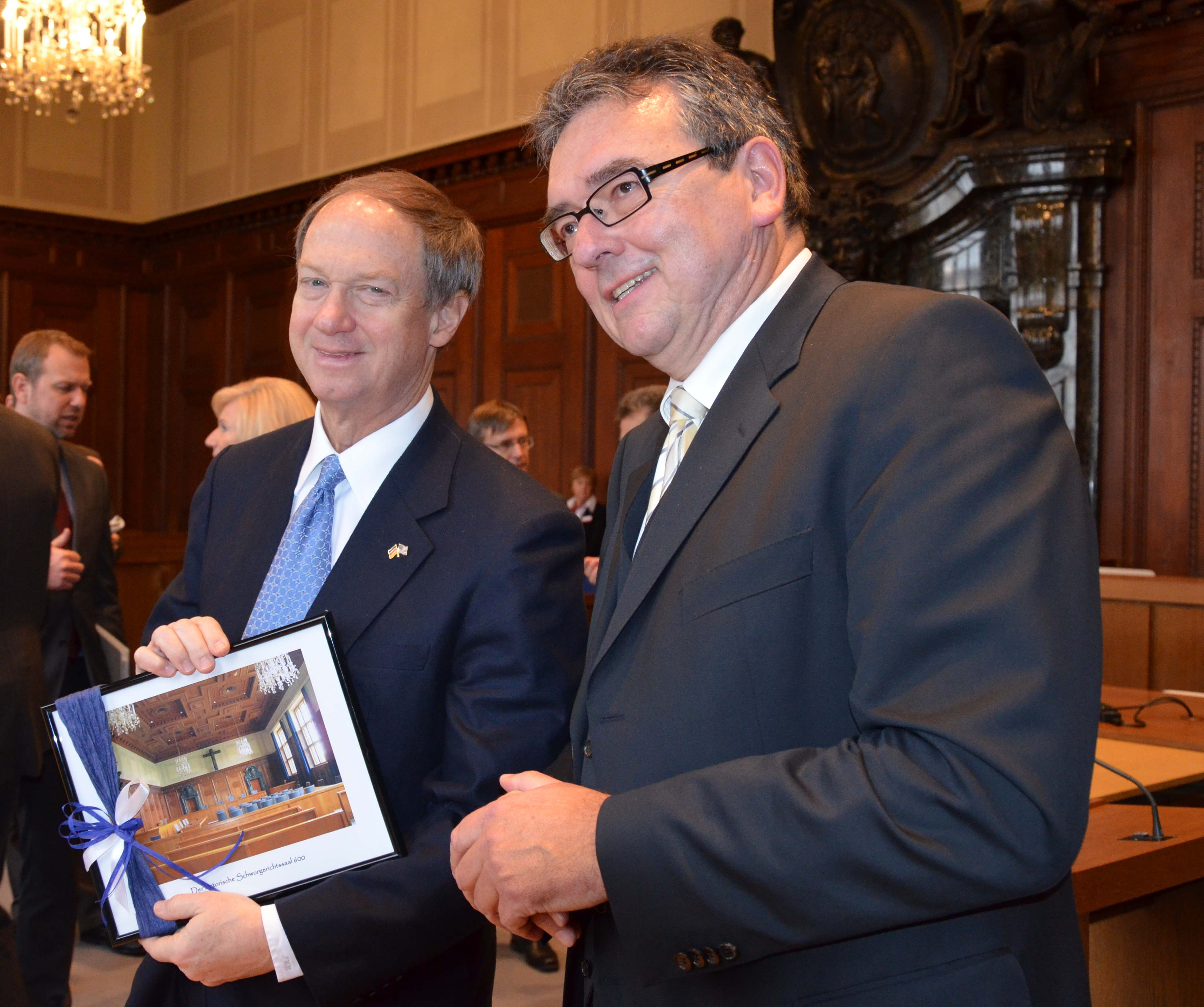 U.S. Ambassador John B. Emerson with OLG President Peter Küspert inside Courtroom of the Nuremberg trails